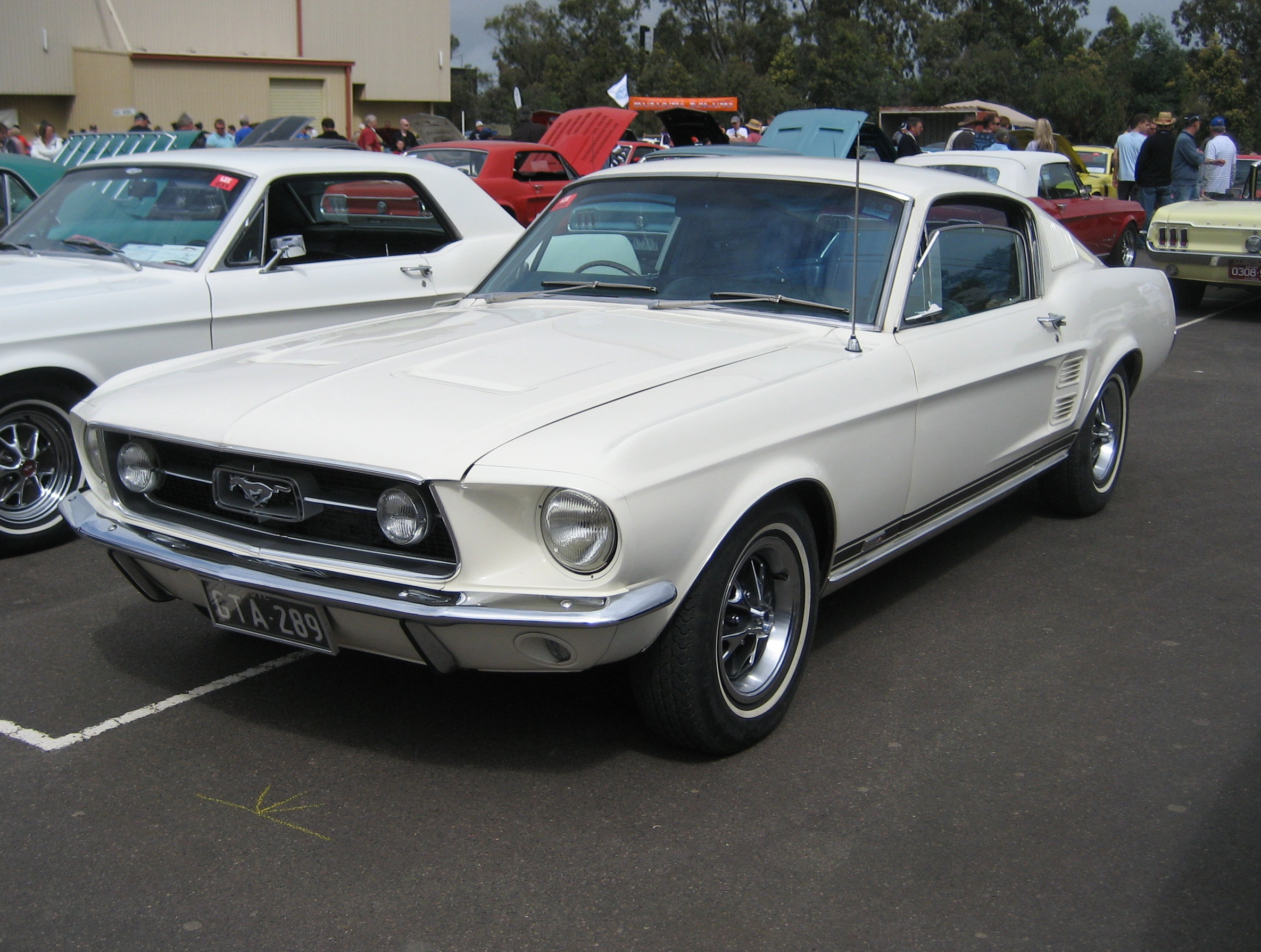 Wimbledon White. Fastback, Hardtop or Convertible. Engines; 200 6 cyl (T code), 200 bhp 289 (C code), 225 bhp 289 (A code), 271 bhp 289 (K code) & 320 bhp 390 (S code)